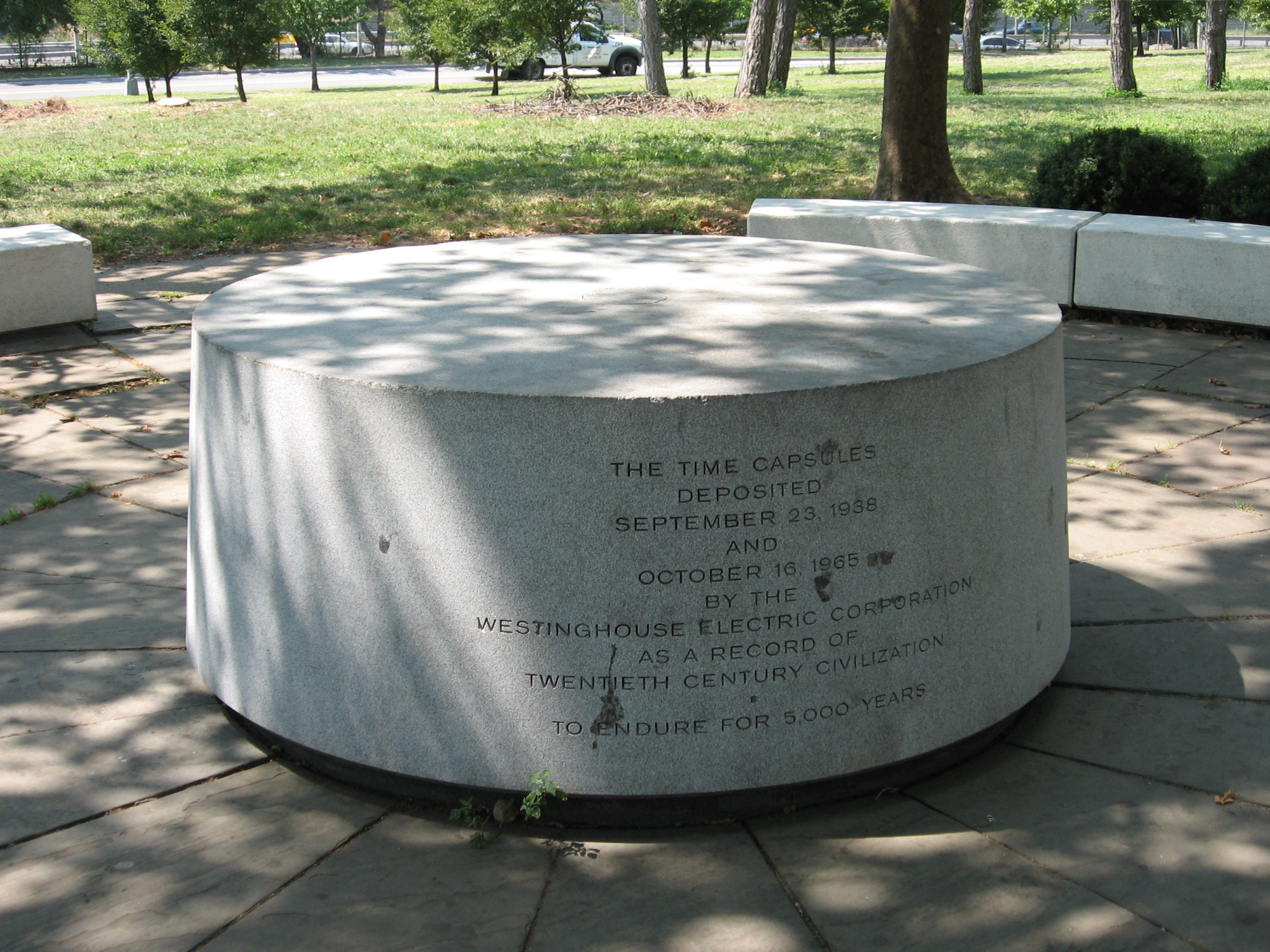 The Westinghouse Time Capsule in Flushing Meadows Corona Park, dedicated on September 23, 1938, and October 16, 1965, at the 1939 and the 1964 World's Fairs.